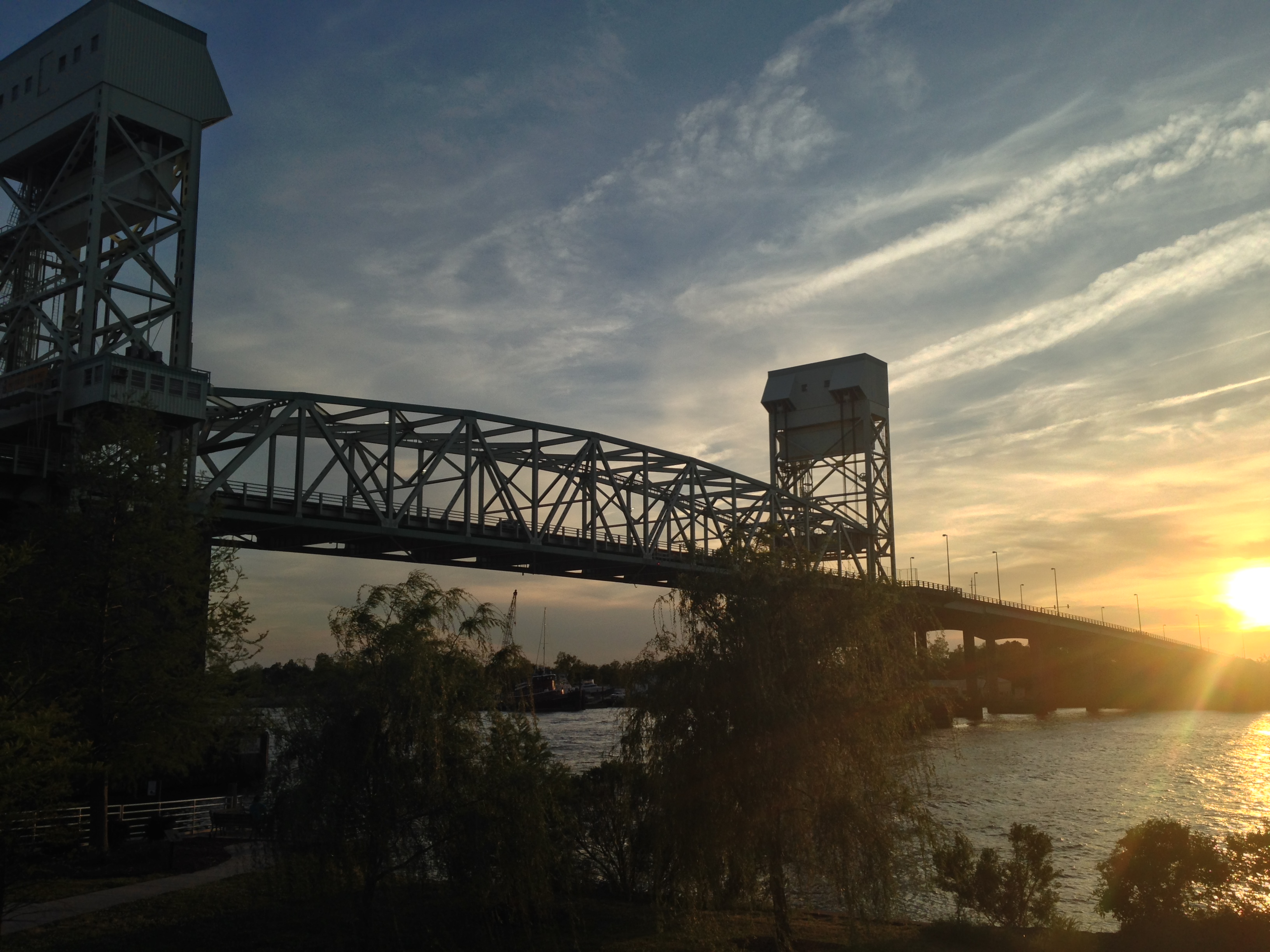 Taken under the Cape Fear Memorial Bridge